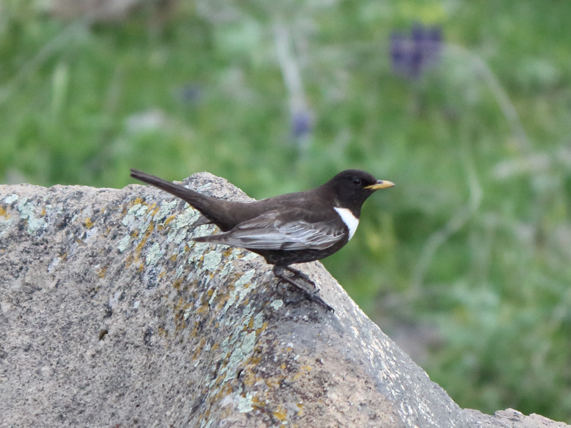 Turdus torquatus amicorum male, Artashavan, Armenia